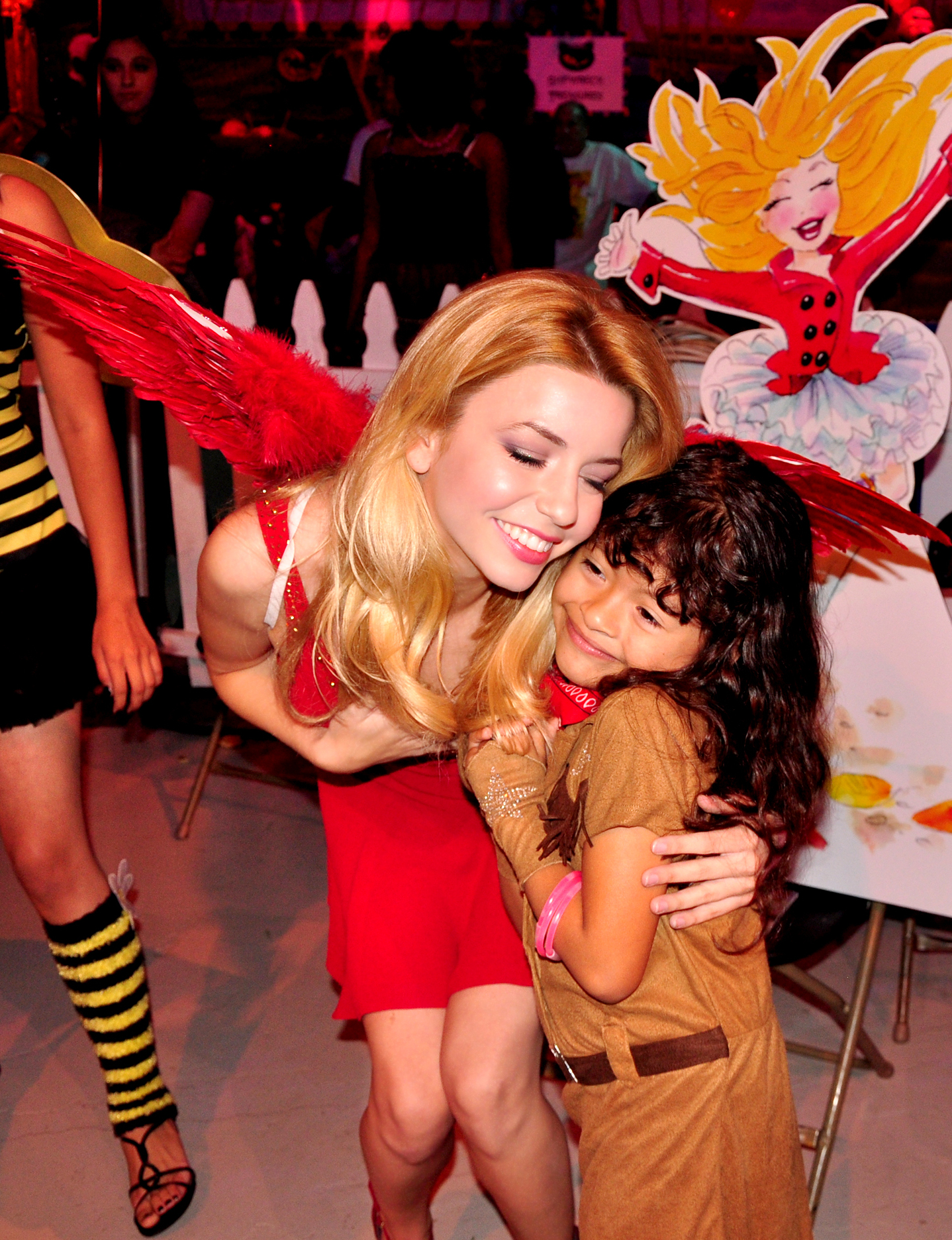 Masiela Lusha hugging a fan during a P.A.L (Police Activities League) Halloween event